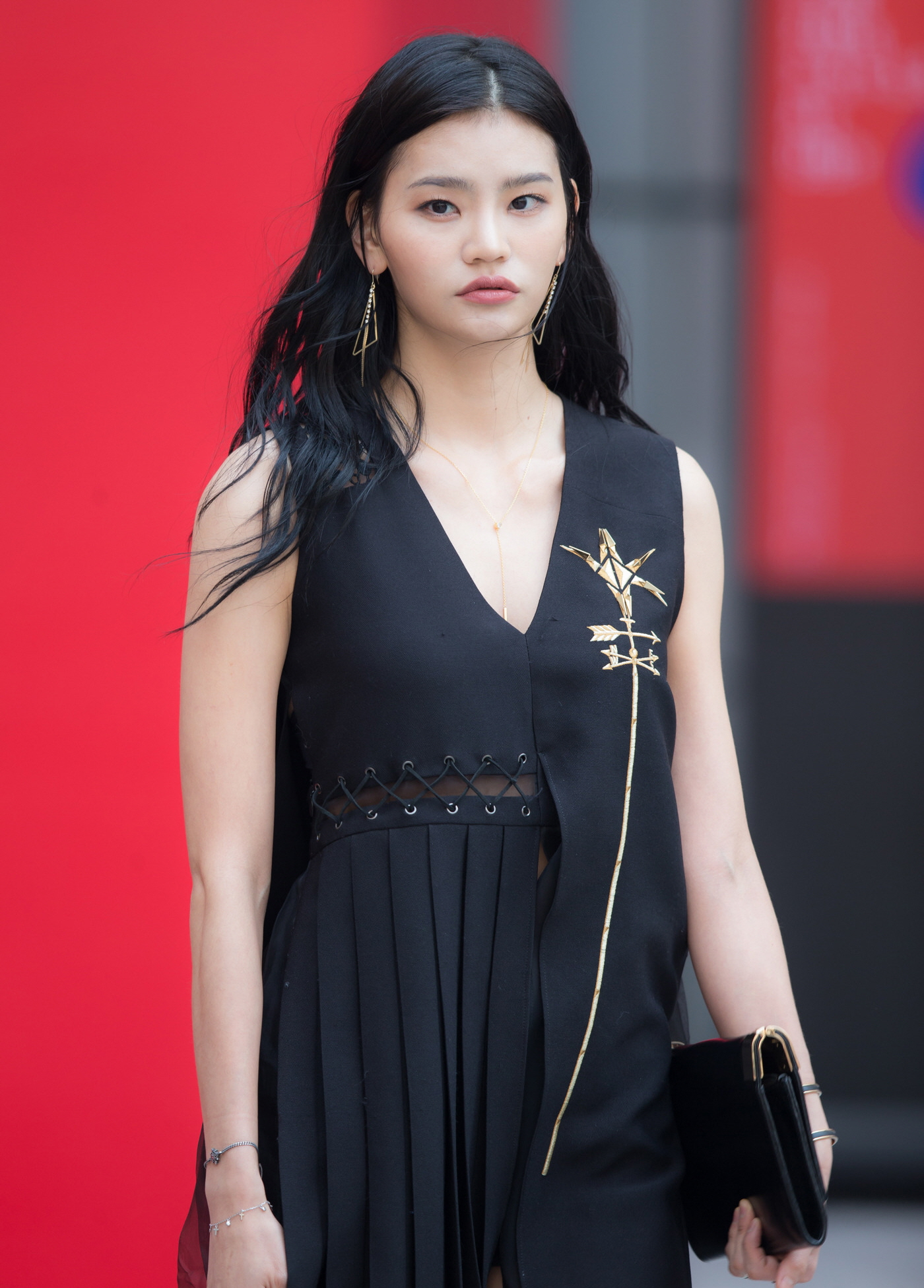 160326 16 F/W 서울패션위크 포토월